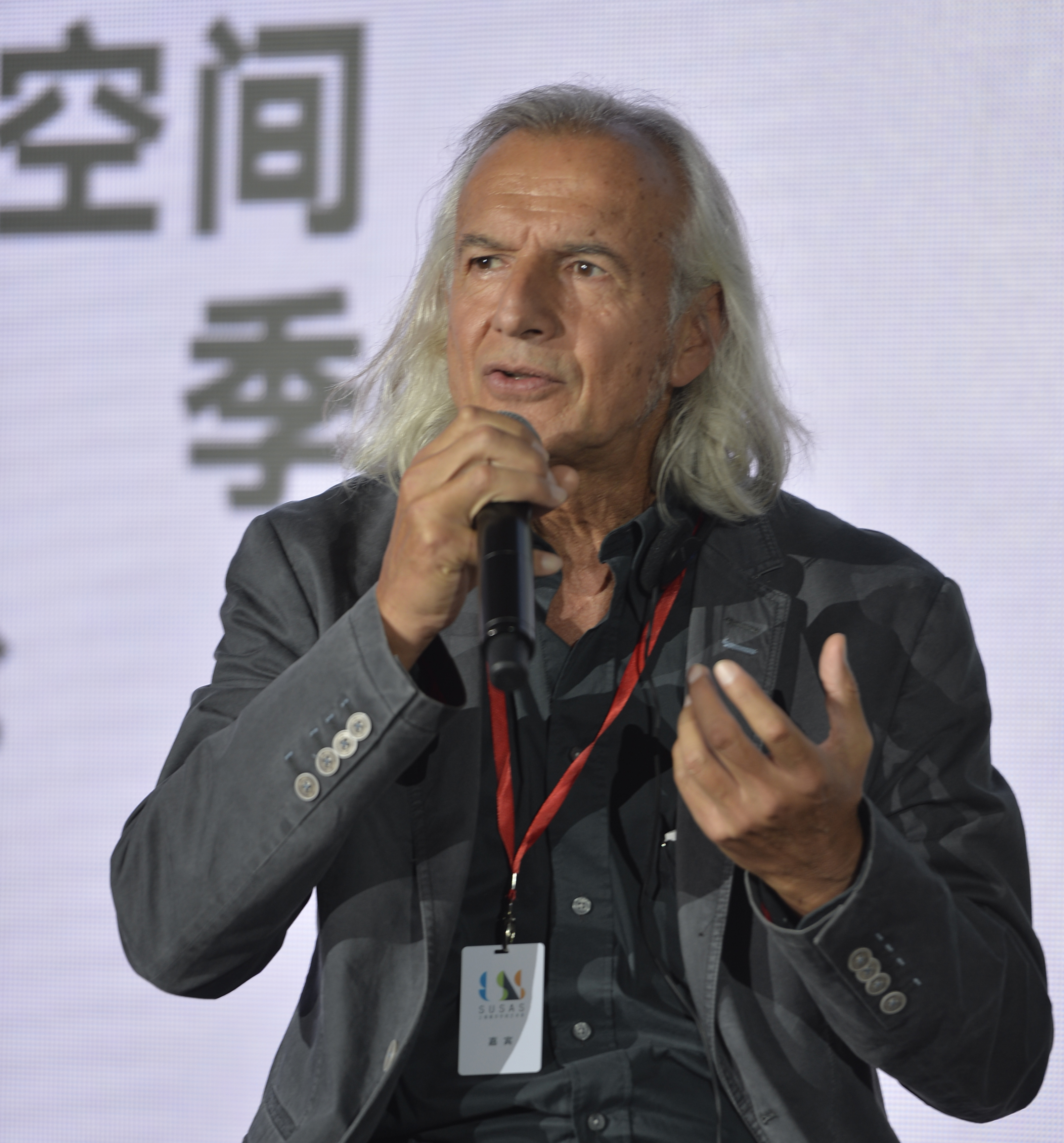 Vortrag CICA 2015